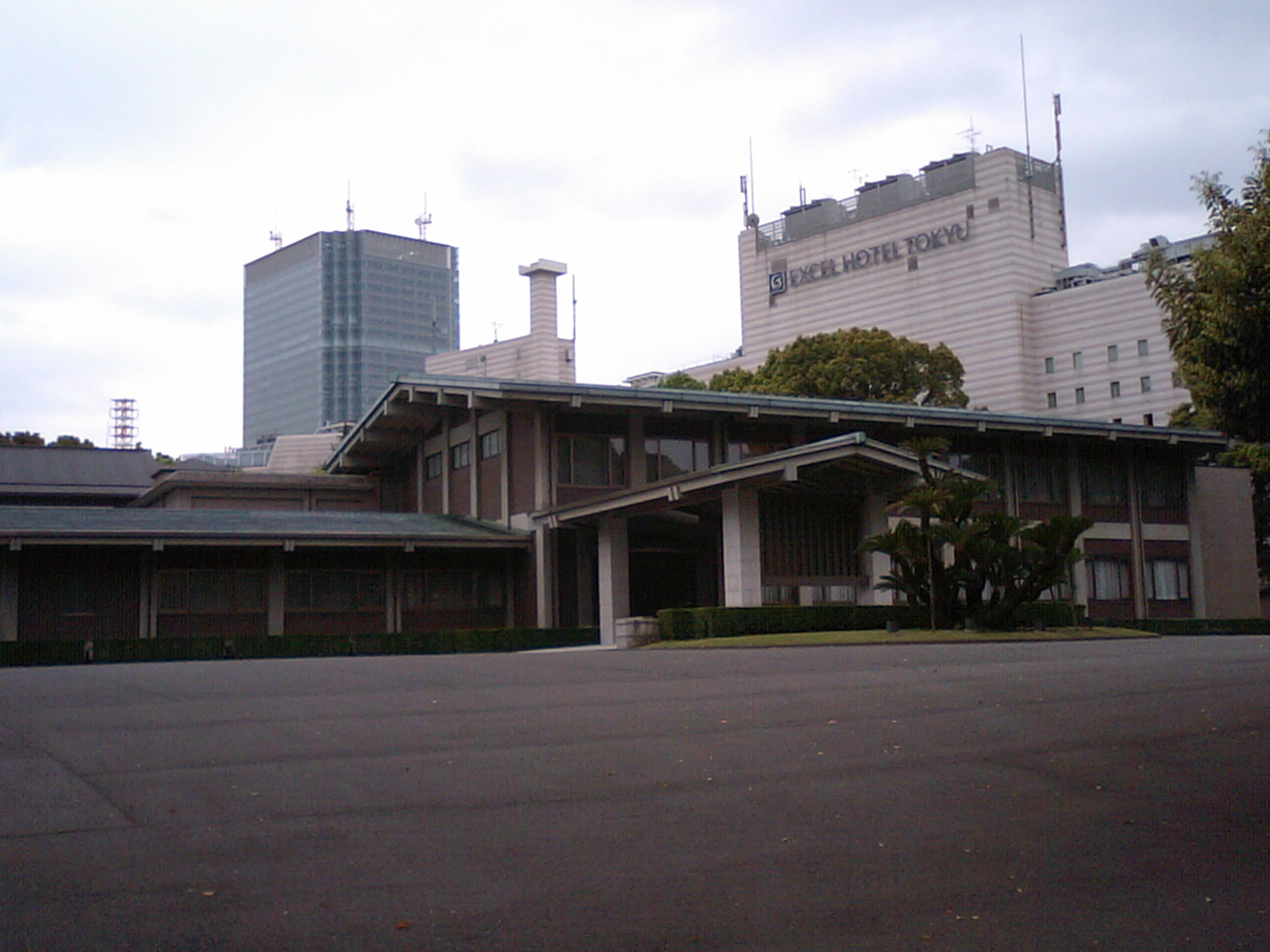 Official Residence of the President House of Representatives of Japan (Chiyoda, Tokyo, Japan).衆議院議長公邸（東京都千代田区永田町）。門の外から撮影。